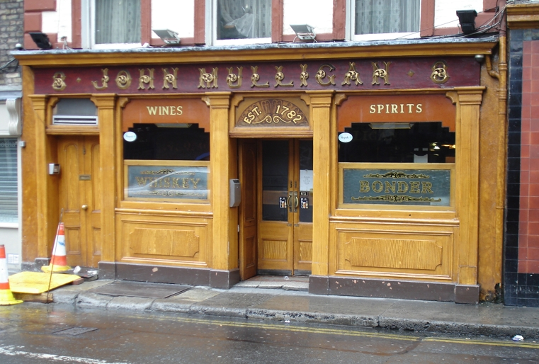 Frontage of Mulligan's Pub, Poolbeg Street, Dublin